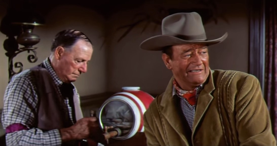 Frank Hagney (left) & John Wayne in McLintock! (cropped screenshot)